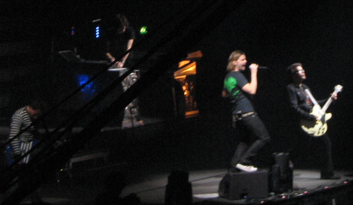 The German band Reamonn performing at their concert in the König-Pilsener-Arena in Oberhausen (North Rhine-Westphalia, Germany) in 2007